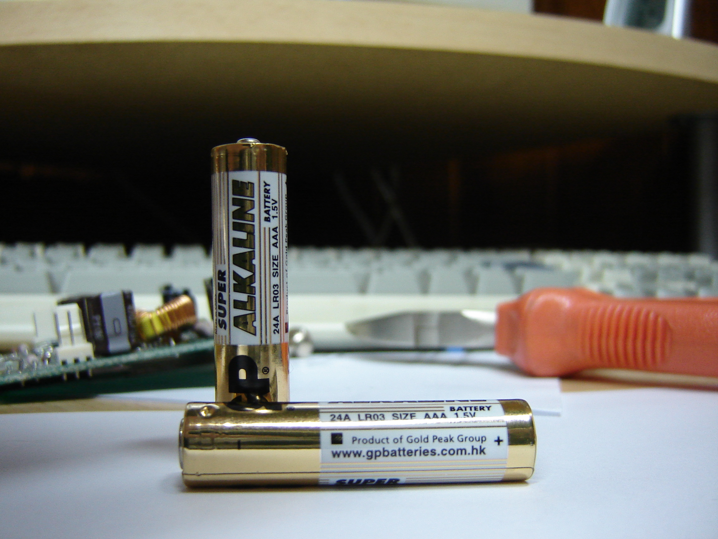 Gold Peak AAA (LR03) Batteries Taken by Renato Schmidt (me) on 22:38(UTC) June 5, 2006